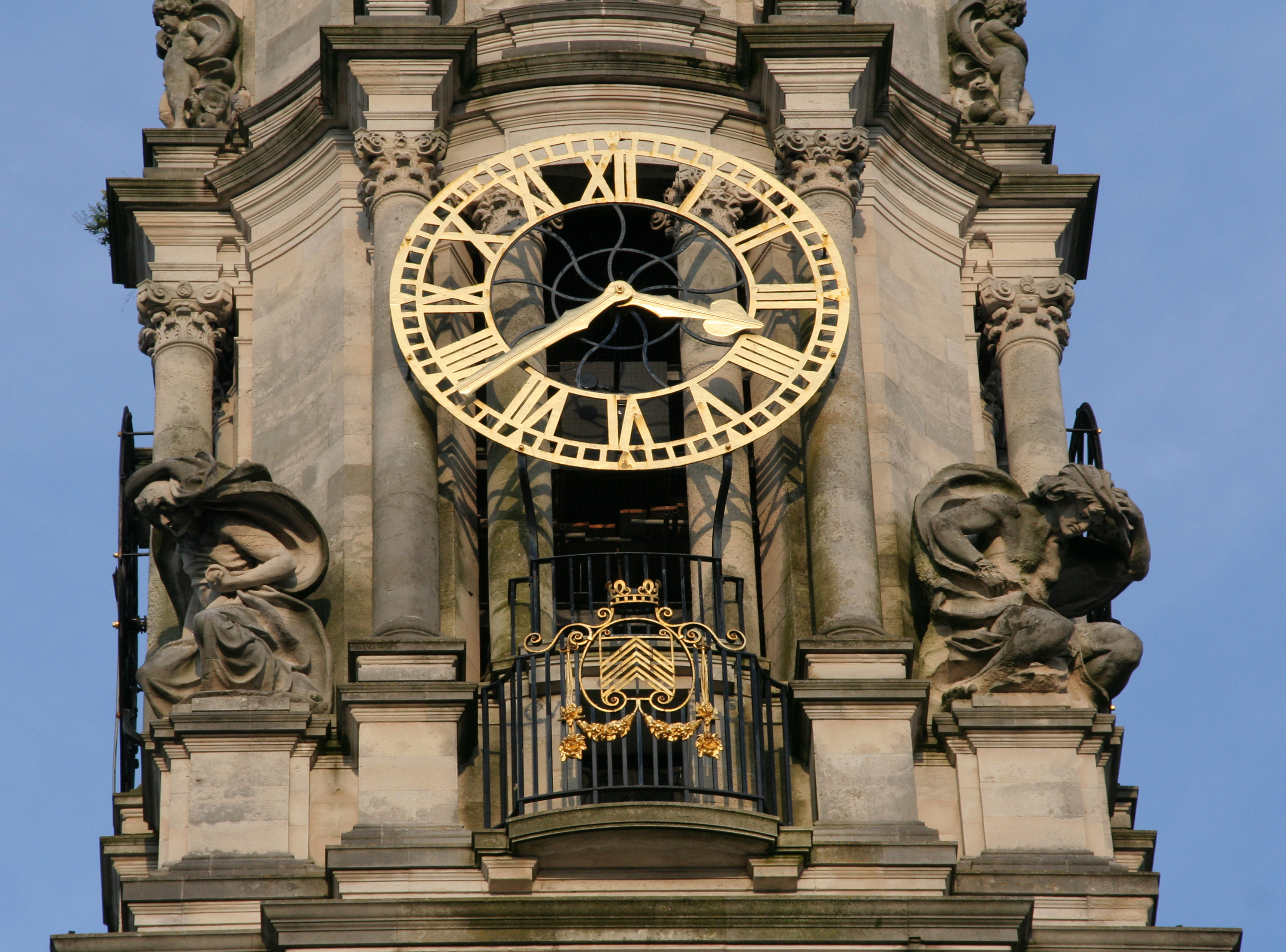 City Hall Clock Tower Cardiff